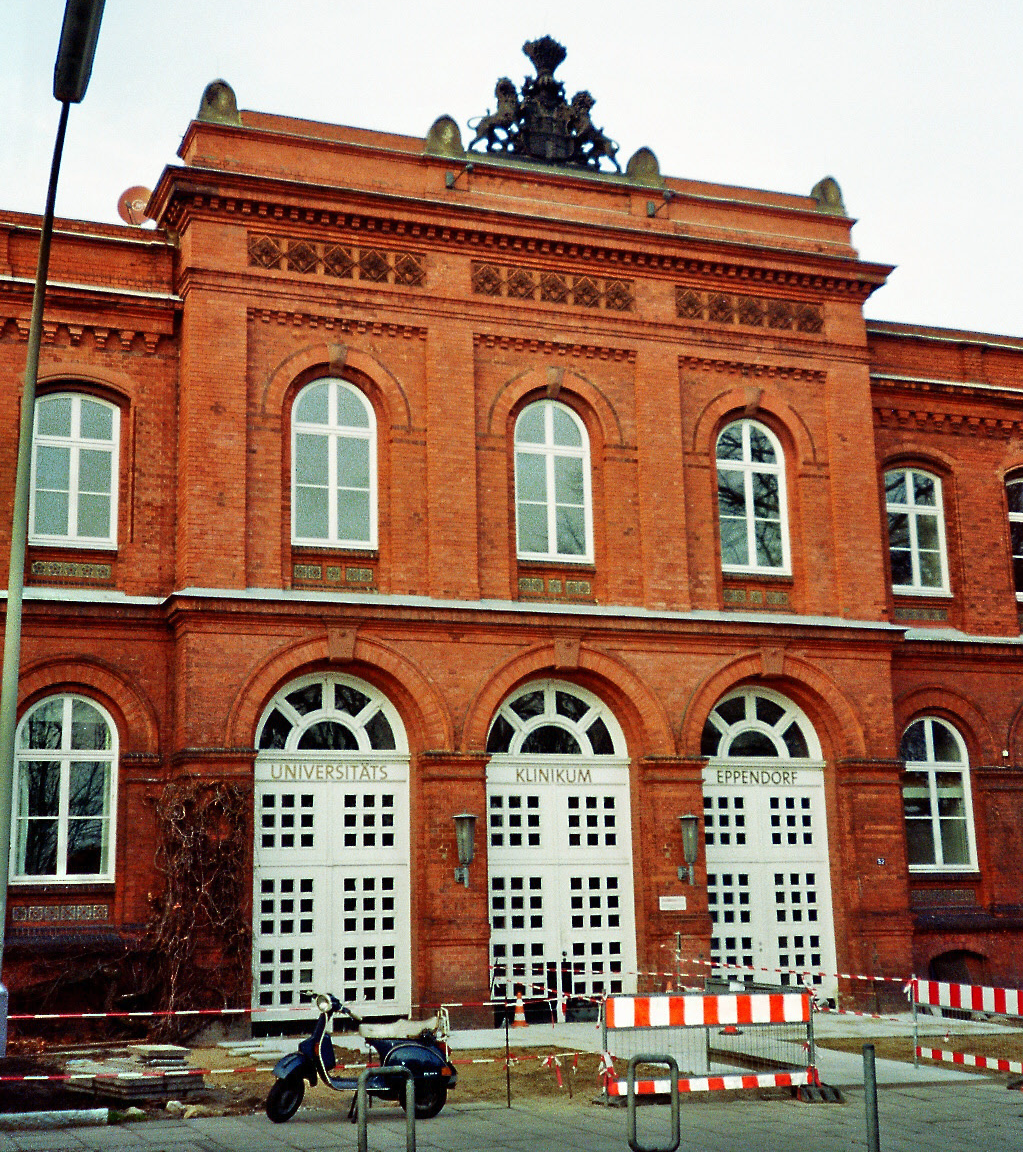 Old Entrance in Main Building at University Medical Center Hamburg-Eppendorf 2006